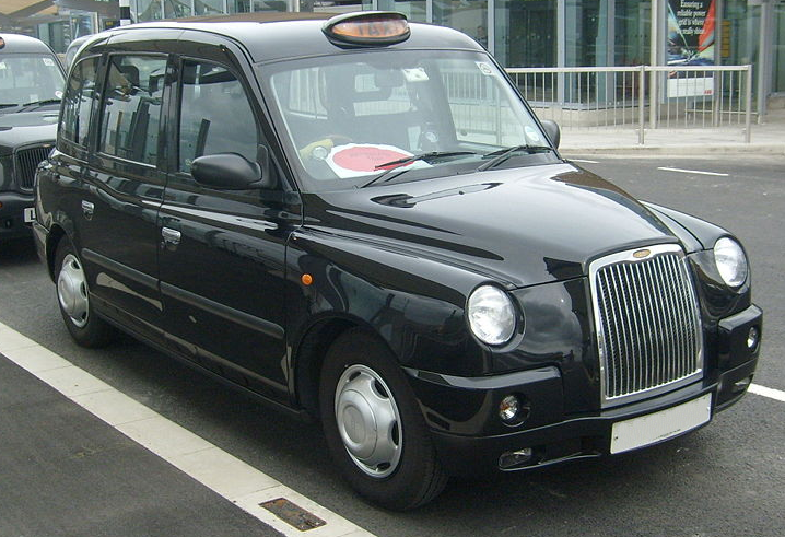 An TX4 Taxi - Number plate blurred due to where the image is on the EN project.